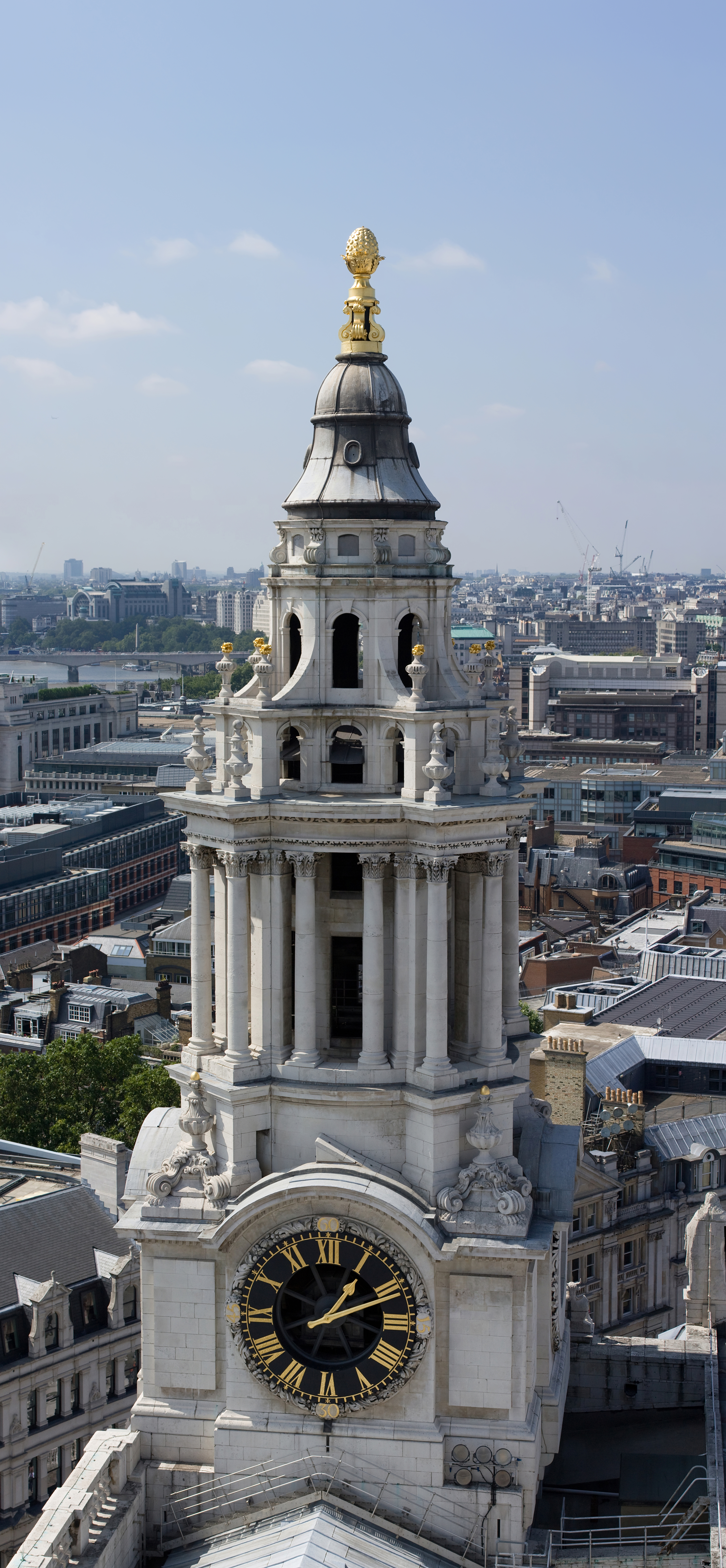 The south west clock tower of St Paul's Cathedral in London, as viewed from the roof. Stitched from 7 frames.